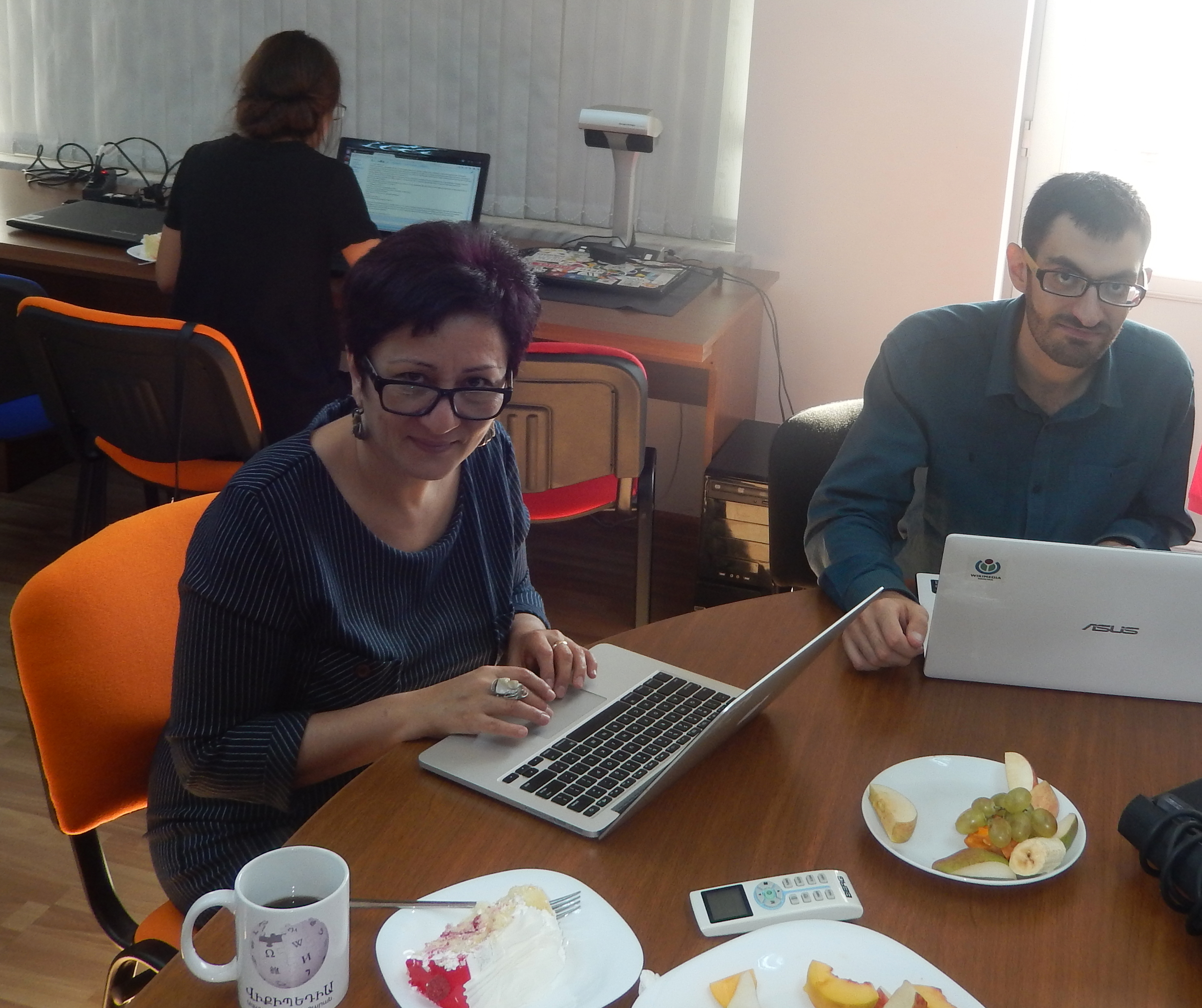 Days of Francophonie in Armenian Wikipedia workshop